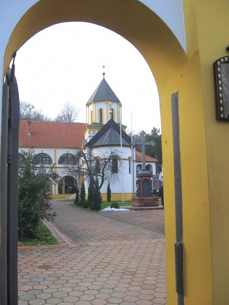 Monastery Privina Glava - The Church St Arhangeles Michail and Gabriel